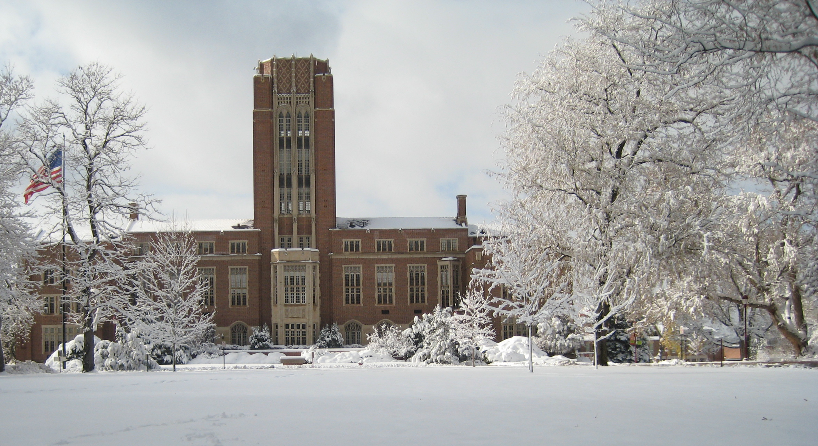 Picture of University of Denver's Mary Reed Hall